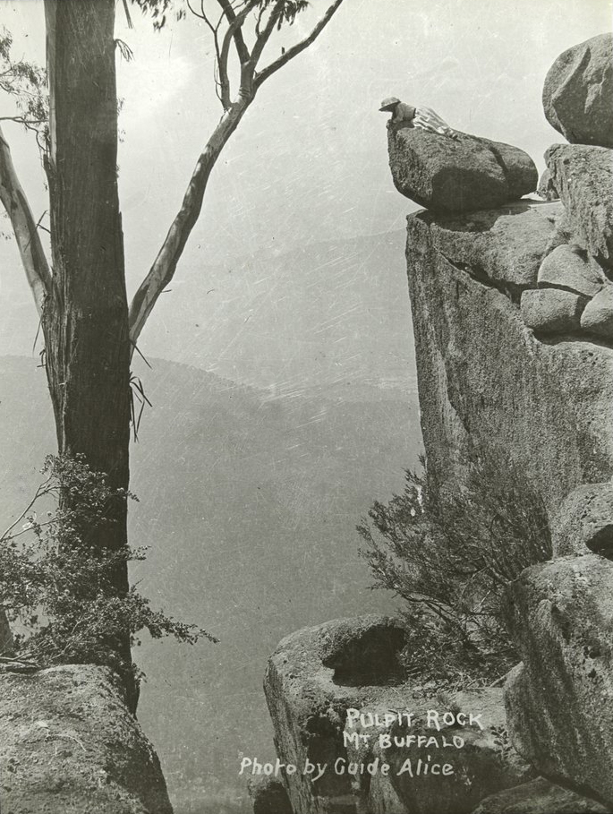 Image of Pulpit Rock, Mt Buffalo, Victoria, Australia, with an apparently female figure lying on the rock, stretched out looking down the sheer cliff-face of The Gorge (it is thought that figure is Alice herself, having set up the camera beforehand, and then posing for the photo). Written on image lower right: "Pulpit Rock, Mt. Buffalo, Photo by Guide Alice". Converted to digital from transparency: glass lantern slide, 8.5 cm x 8.5 cm.